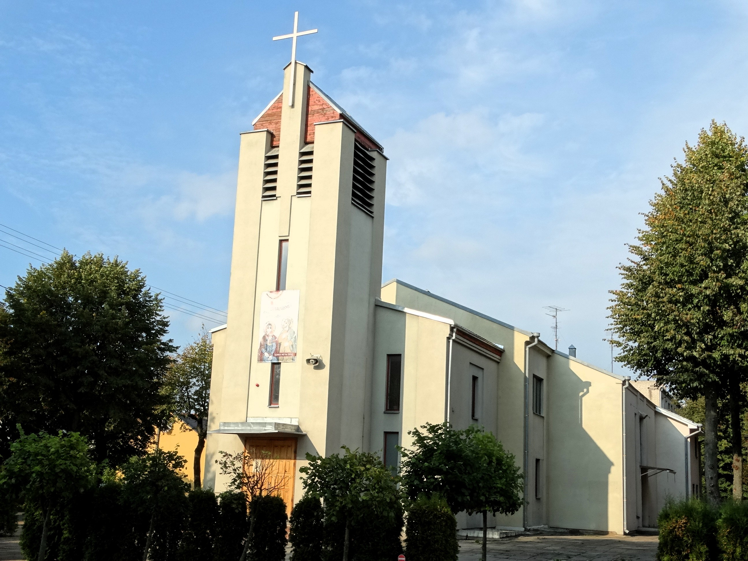 Roman Catholic Church of Saint Joseph, Lithuania